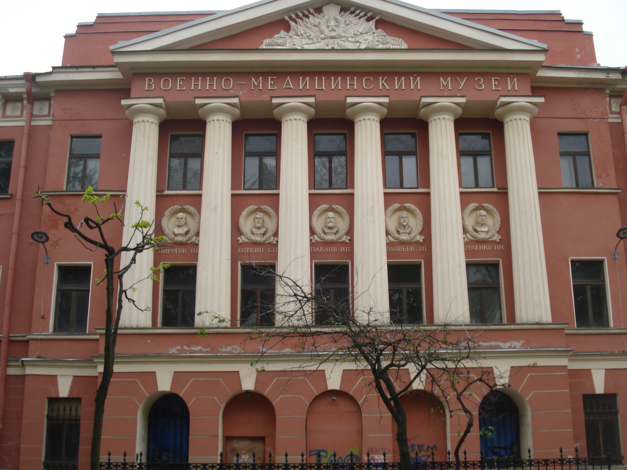 The Russian Museum of Military Medicine in Saint Petersburg, Russia